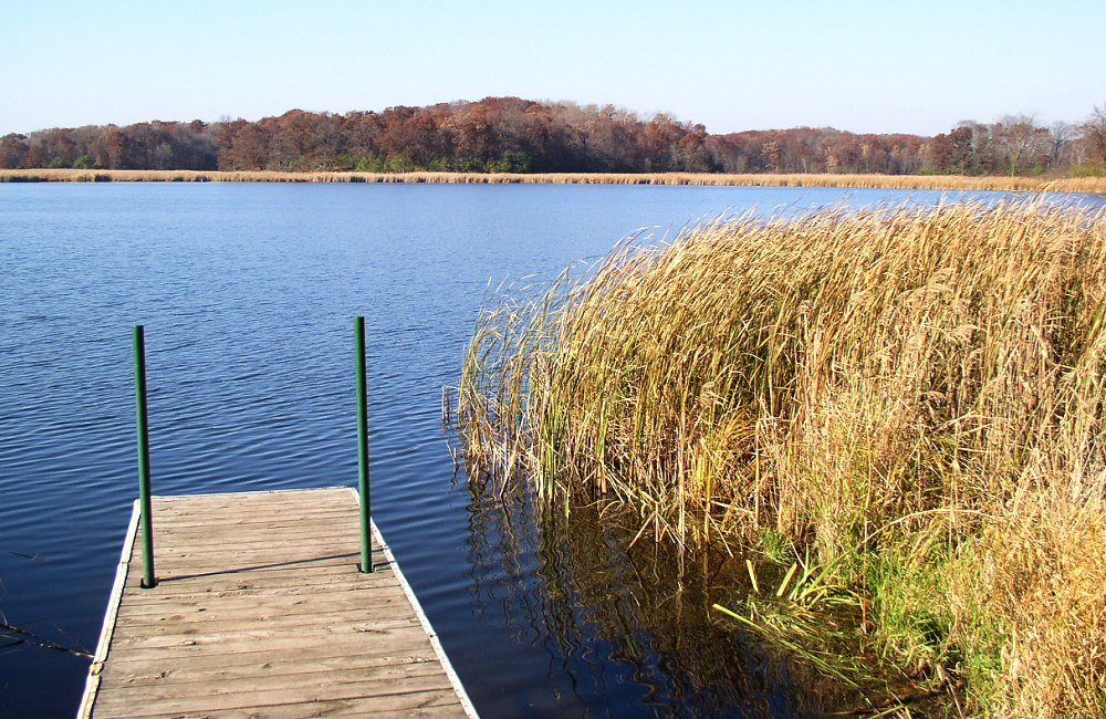 Bjorkland Lake, Lake Maria State Park, Minnesota, USA